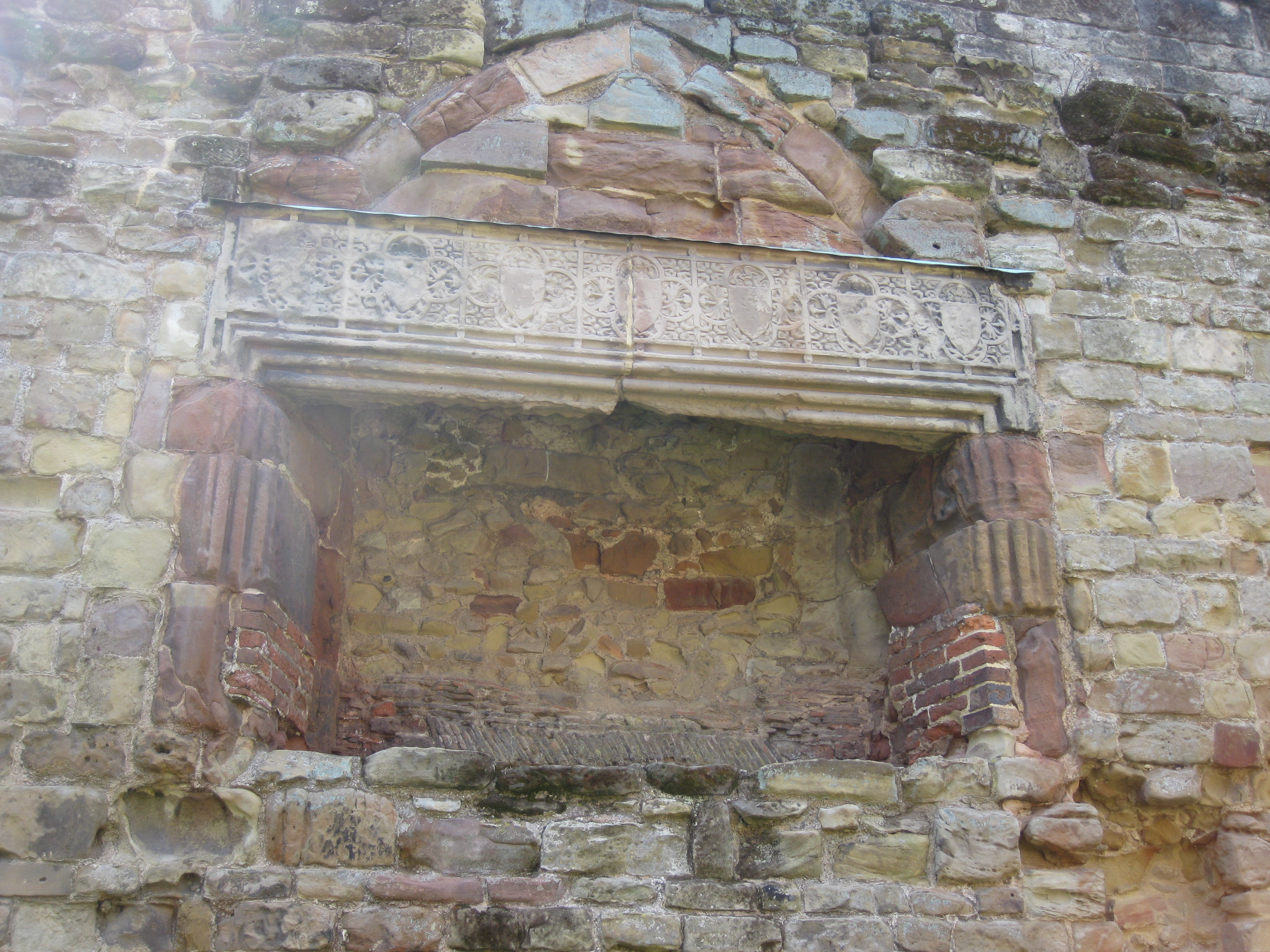 a fire place detail from ahby de la zouch castle